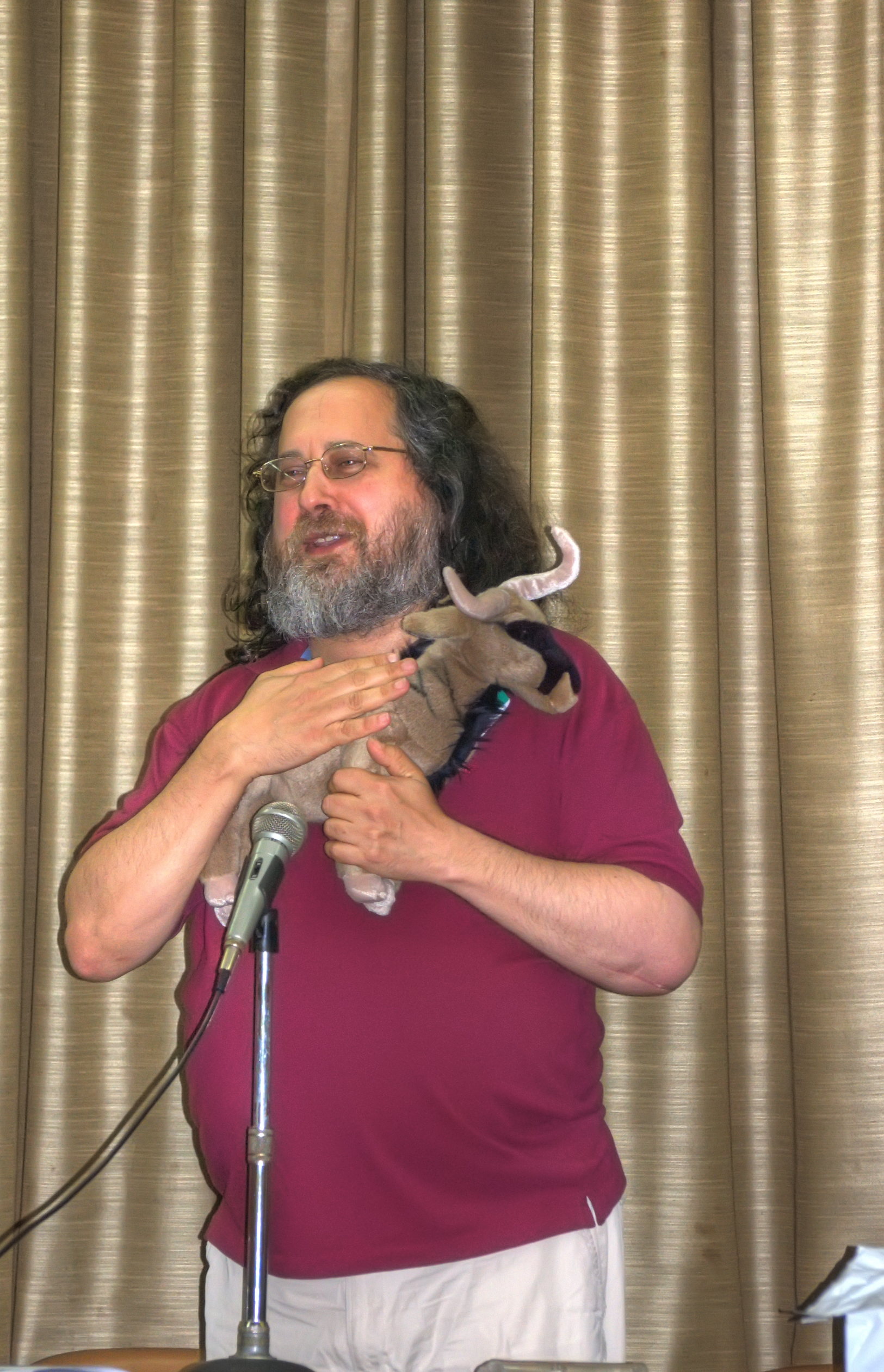 Richard Stallman' talk at Ourense, Galicia, Spain. Ateneo de Ourense, Calle Curros Enríquez 1.